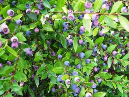 Murtinhos do arbusto Murta